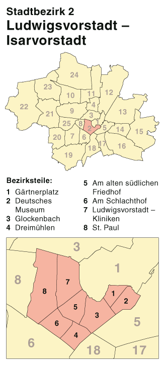 Boroughs of Munich map series